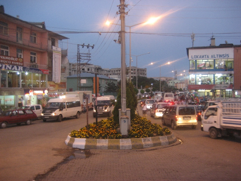 Erciş, Van